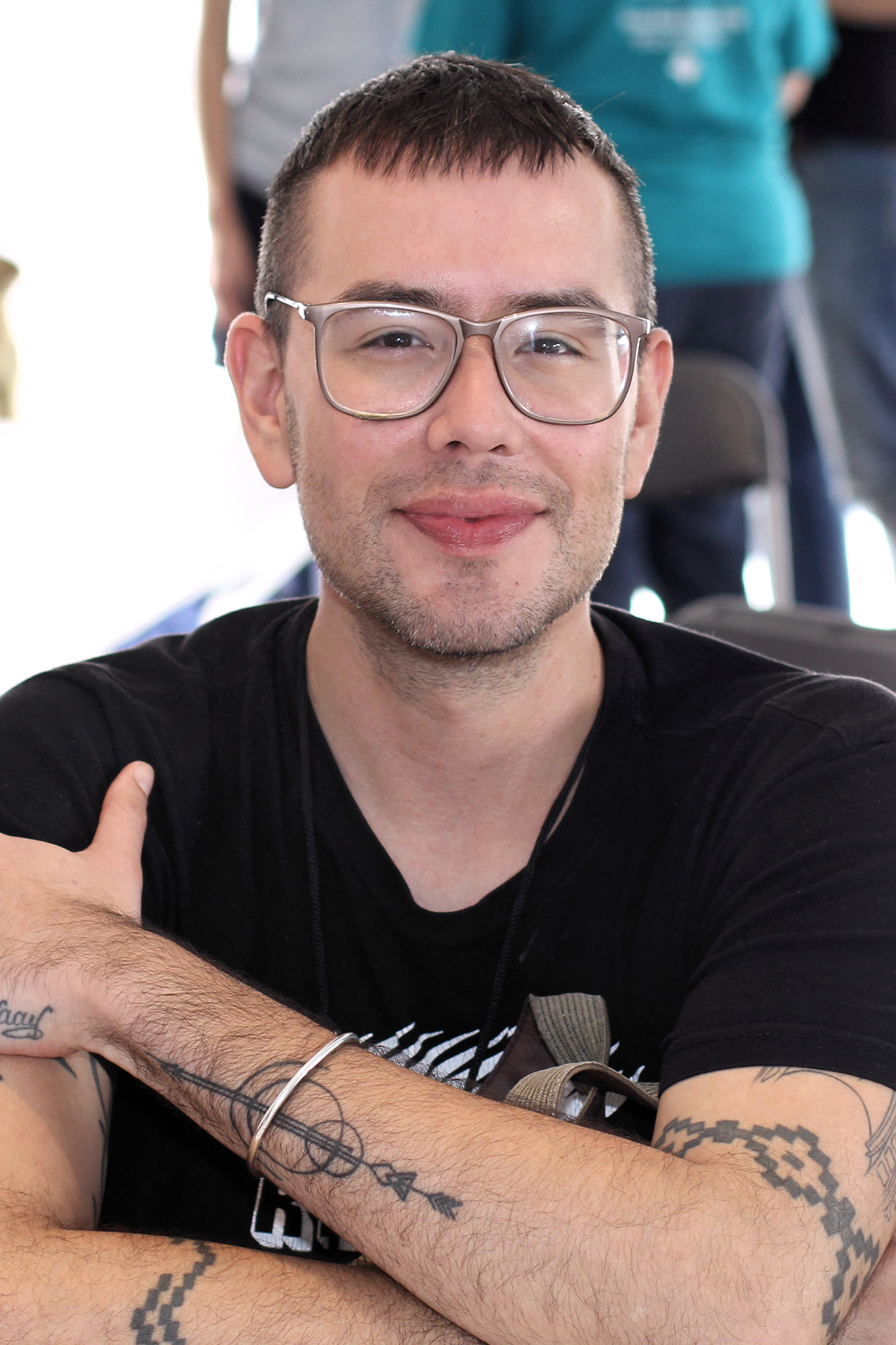 Author Tommy Pico at the 2018 Texas Book Festival in Austin, Texas, United States.